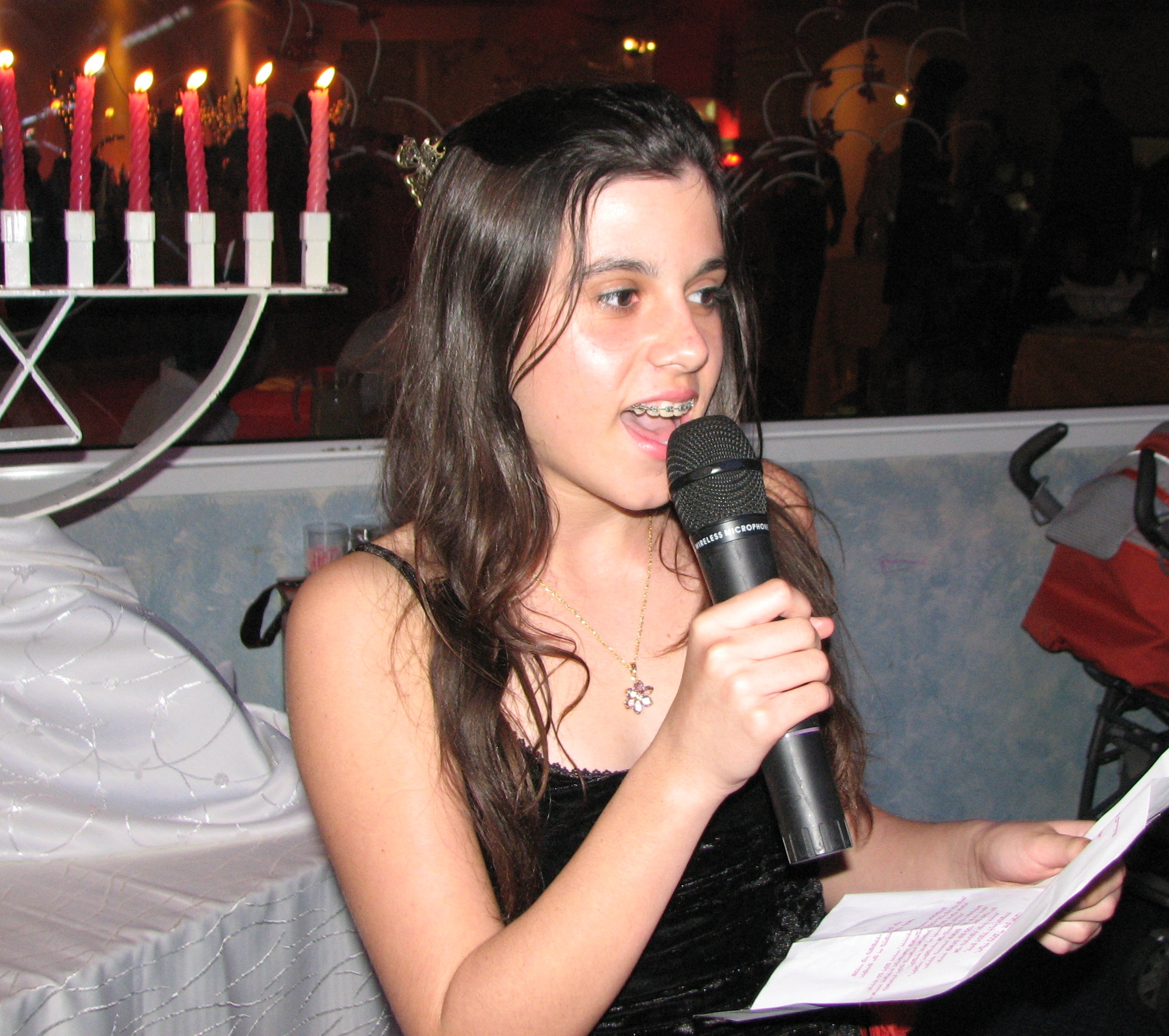 Israeli girl celebrating Bat Mitzvah ceremony